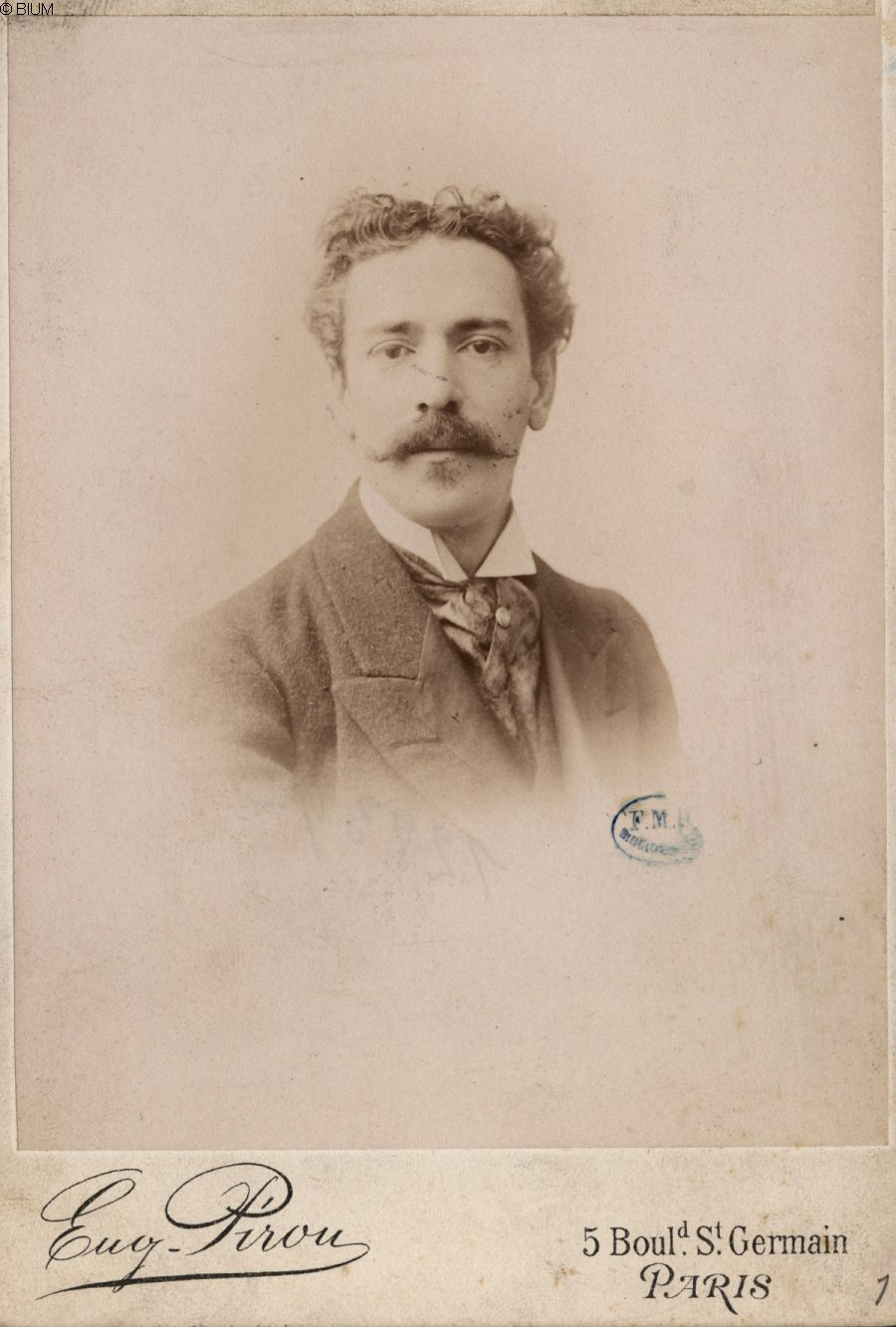 Joaquín Albarrán